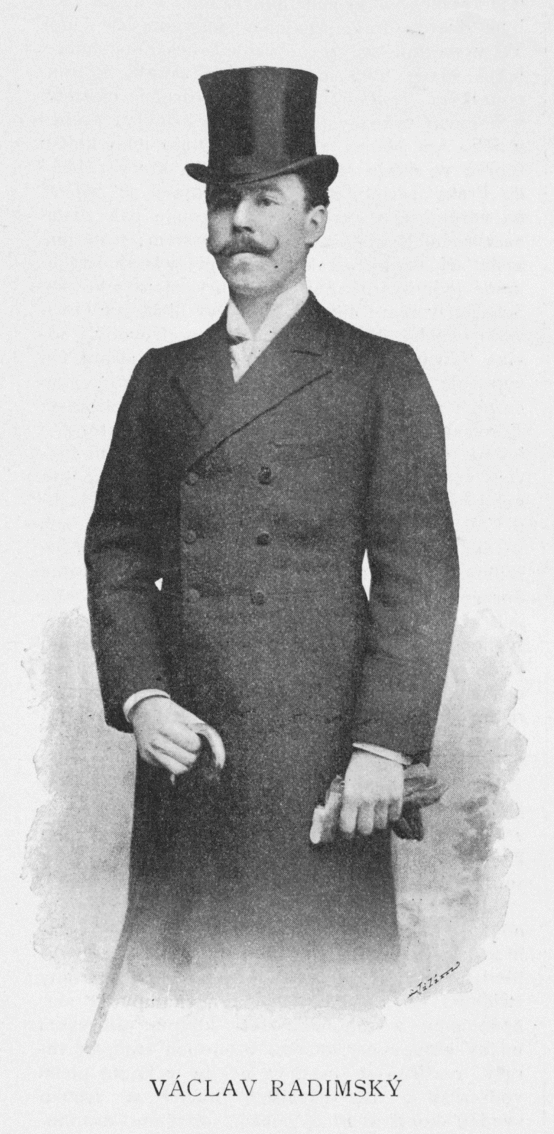 Portrait of Václav Radimský (1867-1946), Czech painter. Photograph is watermarked by printmaker Jan Vilím (1856-1923).